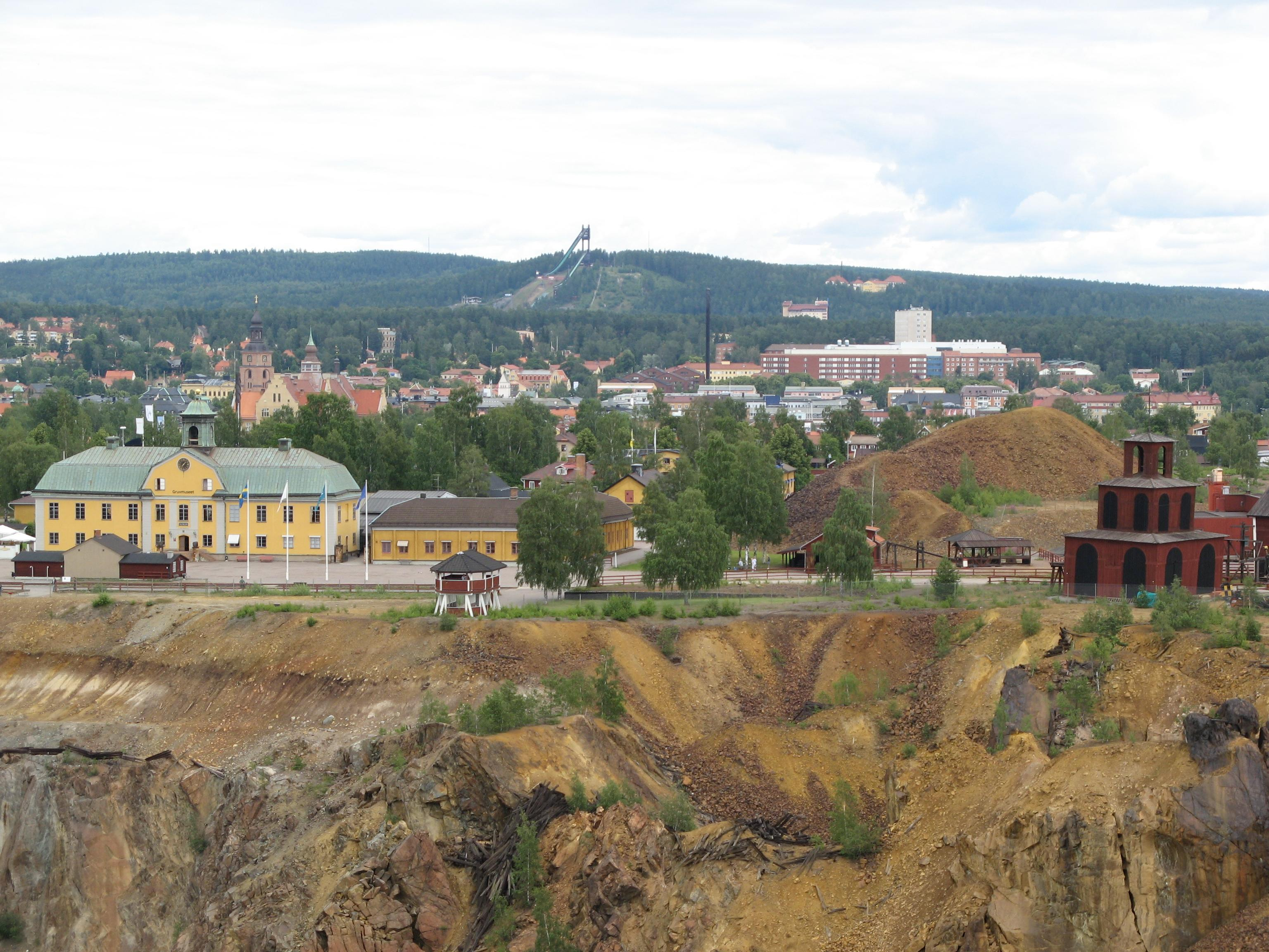 View of Mine Museum, Falun town and Lugnet ski jump. Mine Museum, Falun